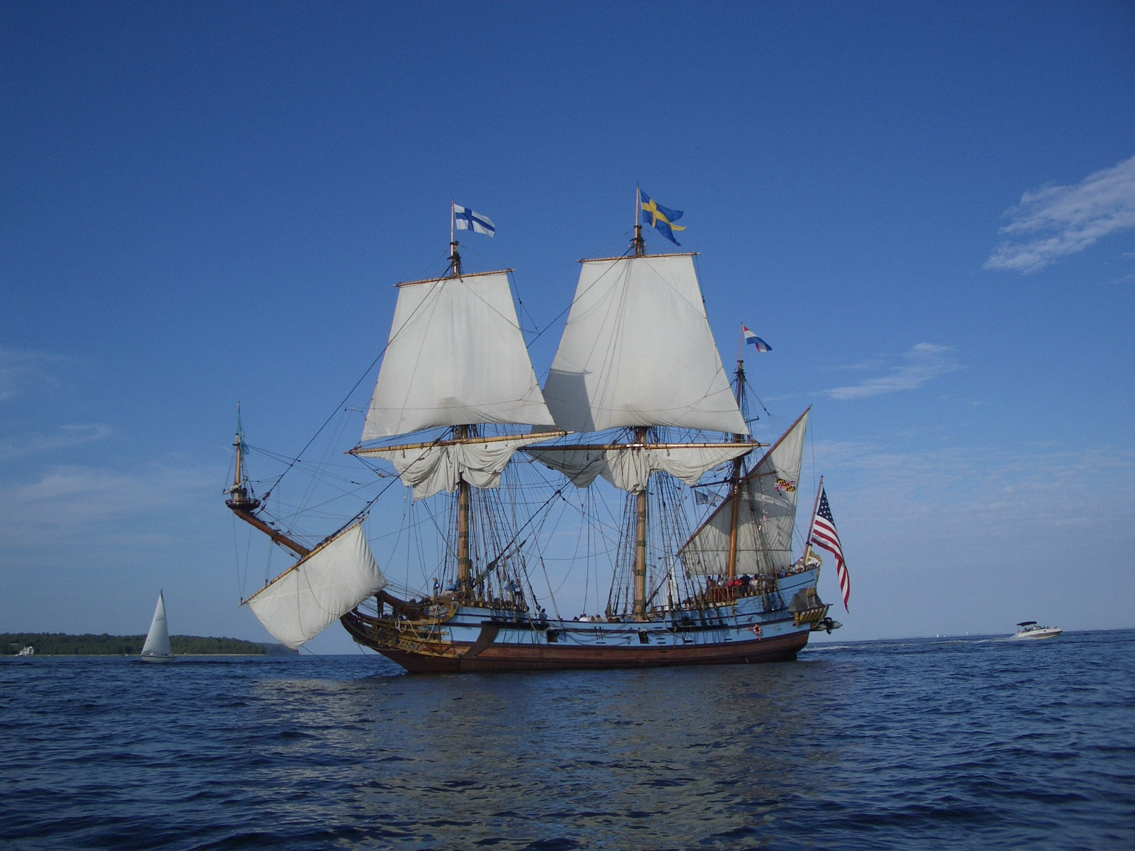 The replica of 16xx tall ship that brought Swedish immigrants to New Sweden in todays Delaware